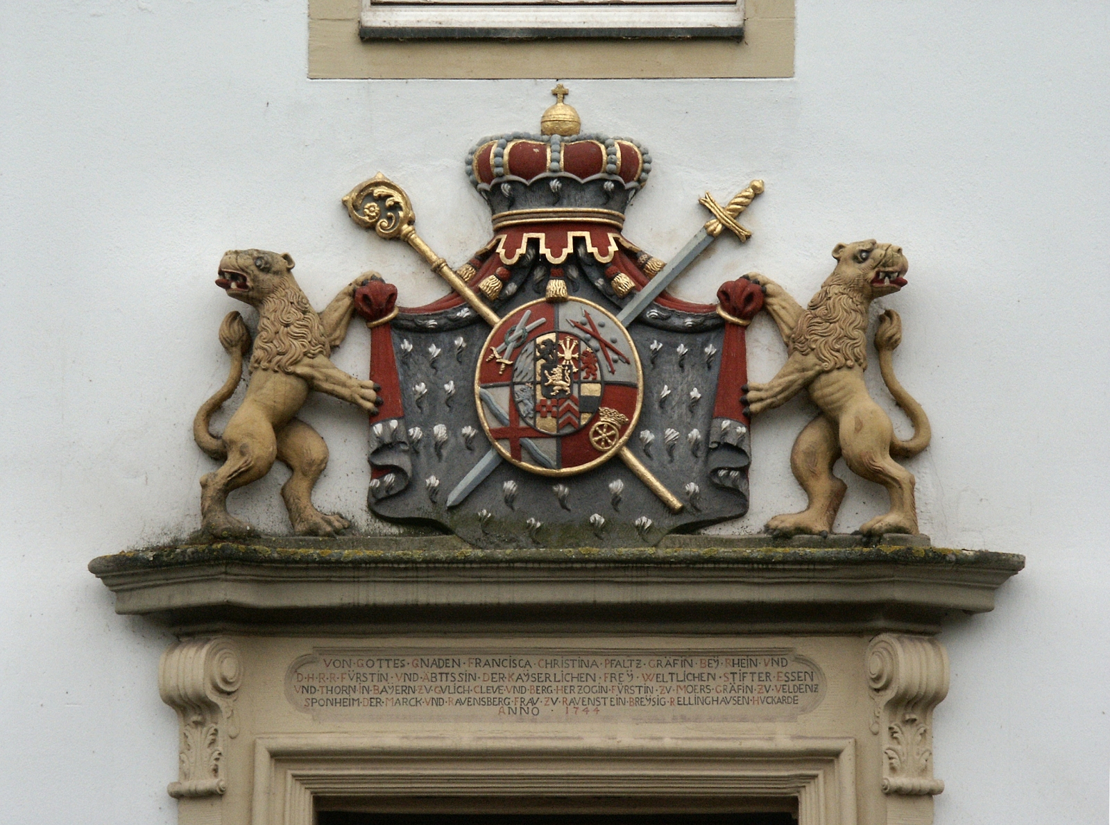 Description: Castle Borbeck, coat of arms above the main portal Capture date: 23. Jul. 2005 Photographer: Sir Gawain